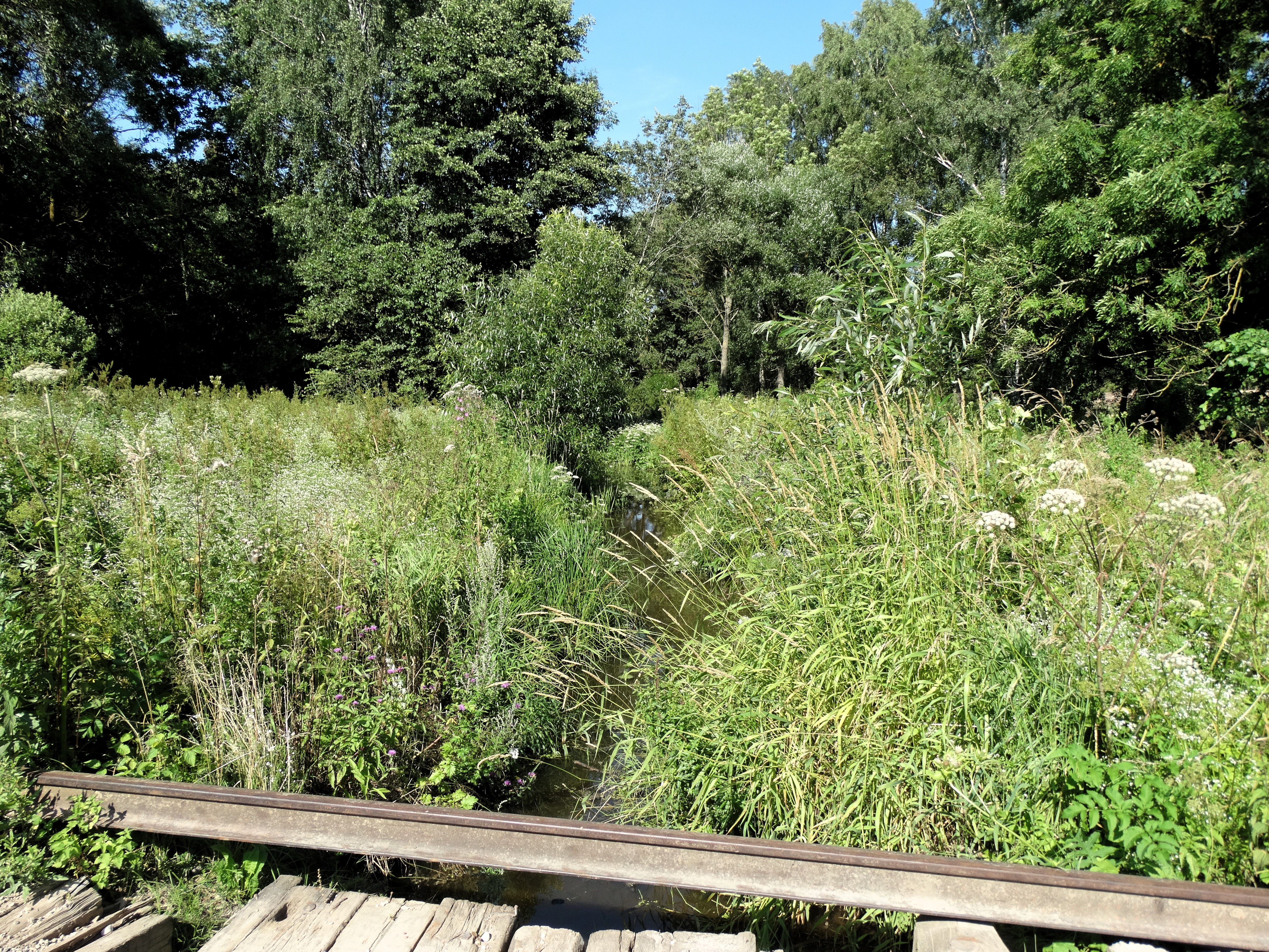 Vėzgė River (tributary of Obelė), Lapgirys, Pakruojis district, Lithuania